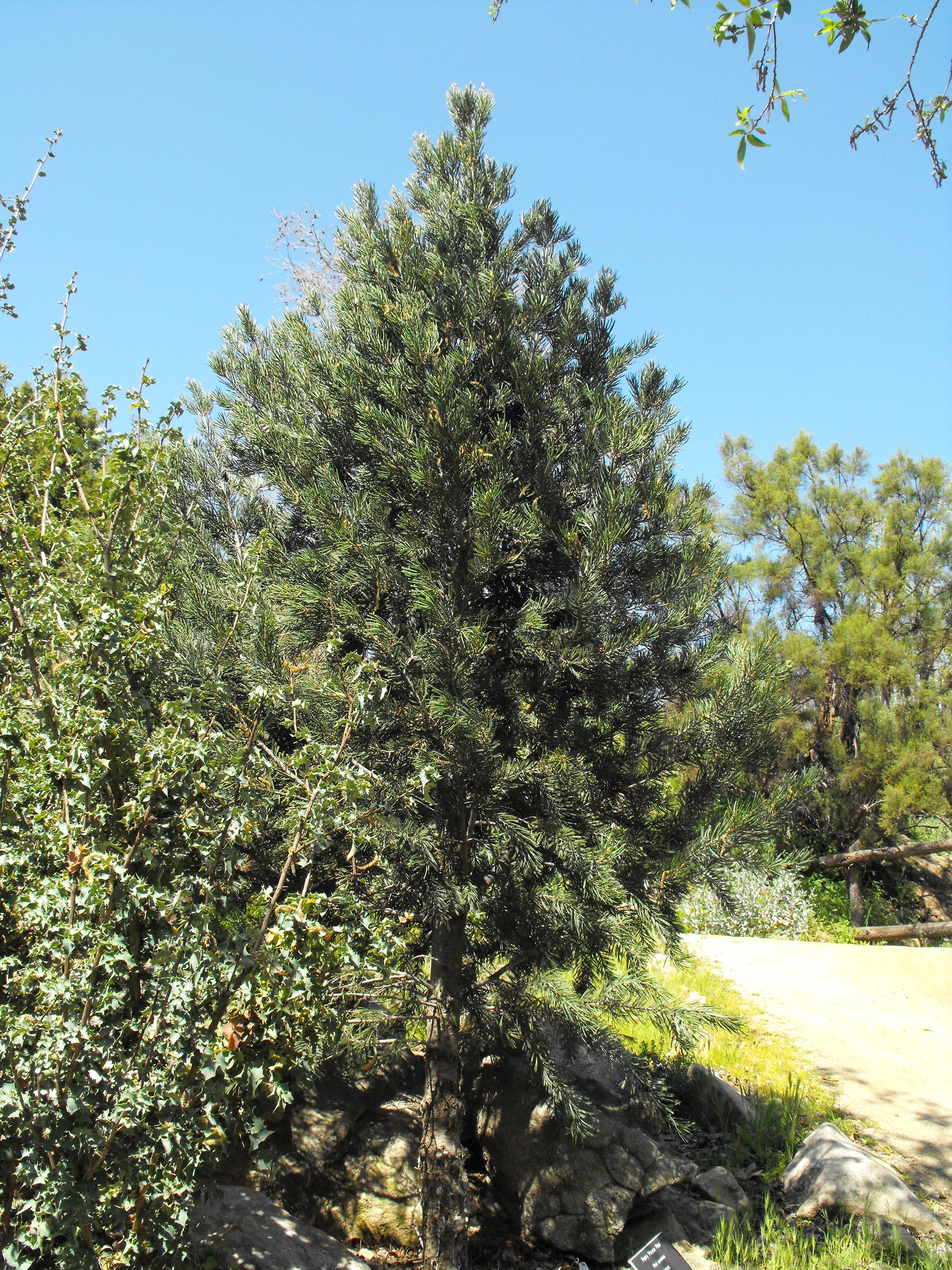 Pinus quadrifolia at the San Diego Wild Animal Park, Escondido, California, USA. Identified by sign.